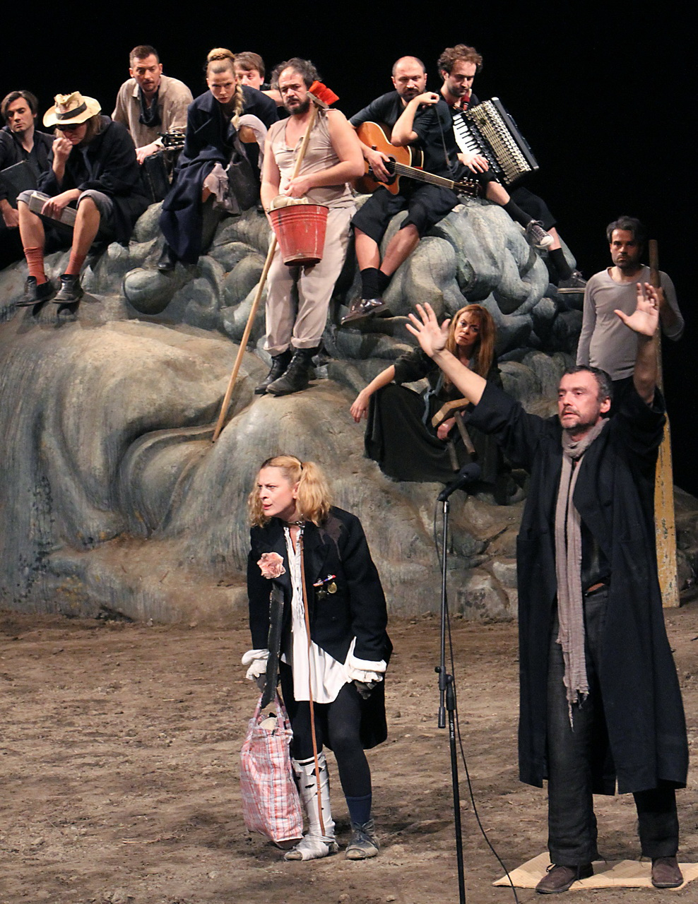 "Odyssey" by Goran Stefanovski, the Drama of the Serbian National Theatre (Co-Production with "Kazalište Ulysses", Zagreb; "GDK Gavella", Zagreb; "Slovensko narodno gledališče – Drama", Maribor; "Pozorište Atelje 212" Belgrade, "Sterijino pozorje", Novi Sad and "Театар на Навигаторот Скопје"), SNT Novi Sad, 2012/13; Jasna Đuričić, Nikola Ristanovski Srpski (latinica): „Odisej” Gorana Stefanovskog, Drama Srpskog narodnog pozorišta (koprodukcija sa "Kazalištem Ulysses", Zagreb; "GDK Gavella", Zagreb; "Slovenskim narodnim gledališčem – Drama", Maribor; "Pozorištem Atelje 212" Belgrade, "Sterijinim pozorjem", Novi Sad i "Театар на Навигаторот Скопје"), SNP, Novi Sad, 2012/13; Jasna Đuričić, Nikola Ristanovski Српски (ћирилица): "Одисеј" Горана Стефановског, Драма Српског народног позоришта (копродукција са „Казалиштем Ulysses", Загреб, "ГДК Gavella", Загреб, „Словенским народним гледалишчем – Драма", Марибор; "Позориштем Атеље 212", Београд, „Стеријиним позорјем", Нови Сад и "Театаром на Навигаторот Скопје"); СНП, Нови Сад, 2012/13; Јасна Ђуричић, Никола Ристановски